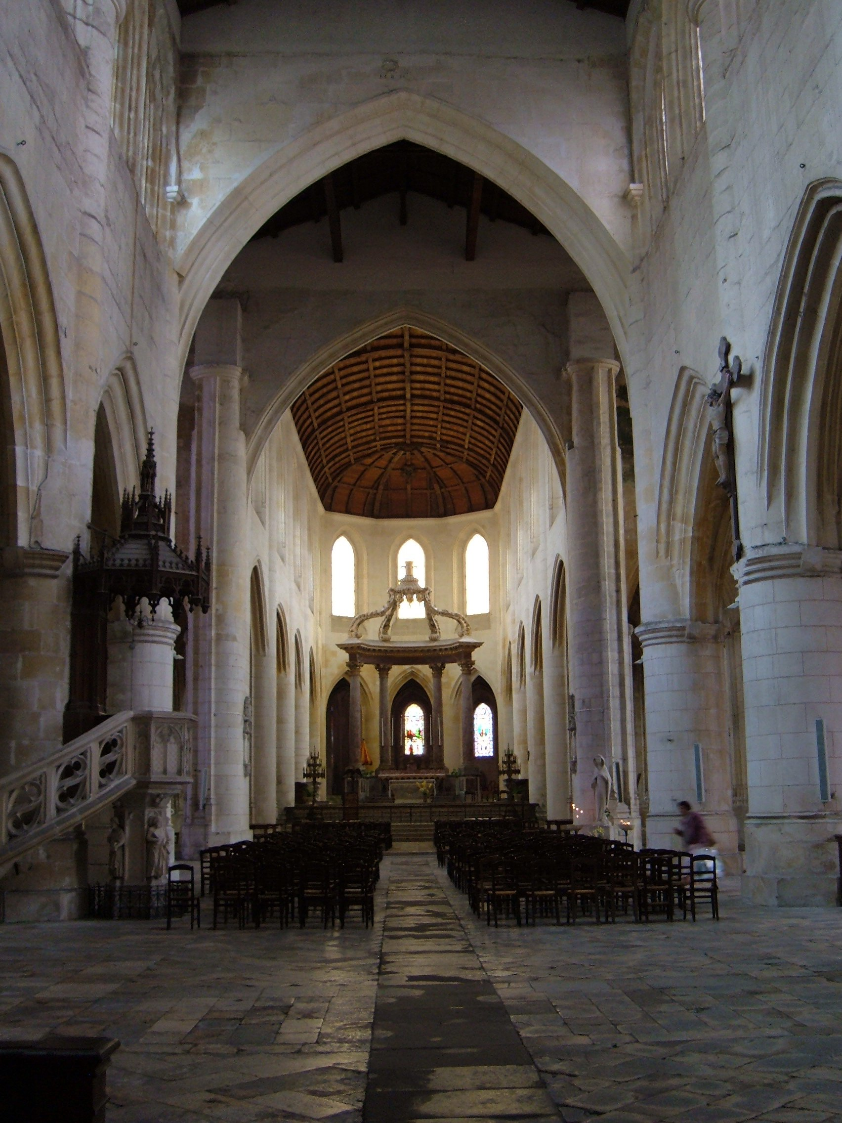 Interior of the Cathédrale Saint-Pierre in Saintes, France.